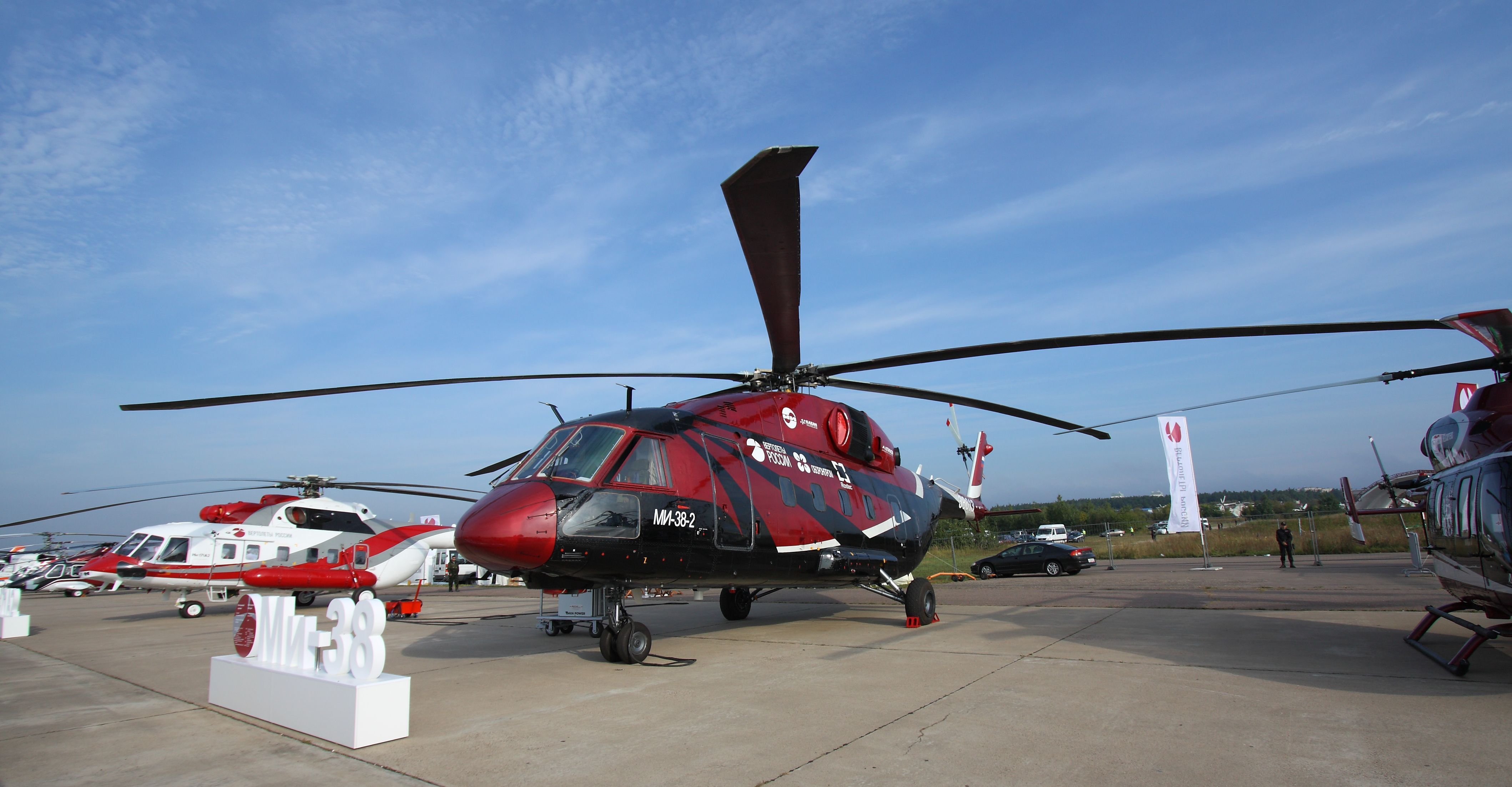 Mil Mi-38-2 (The international aerospace salon MAKS-2013)